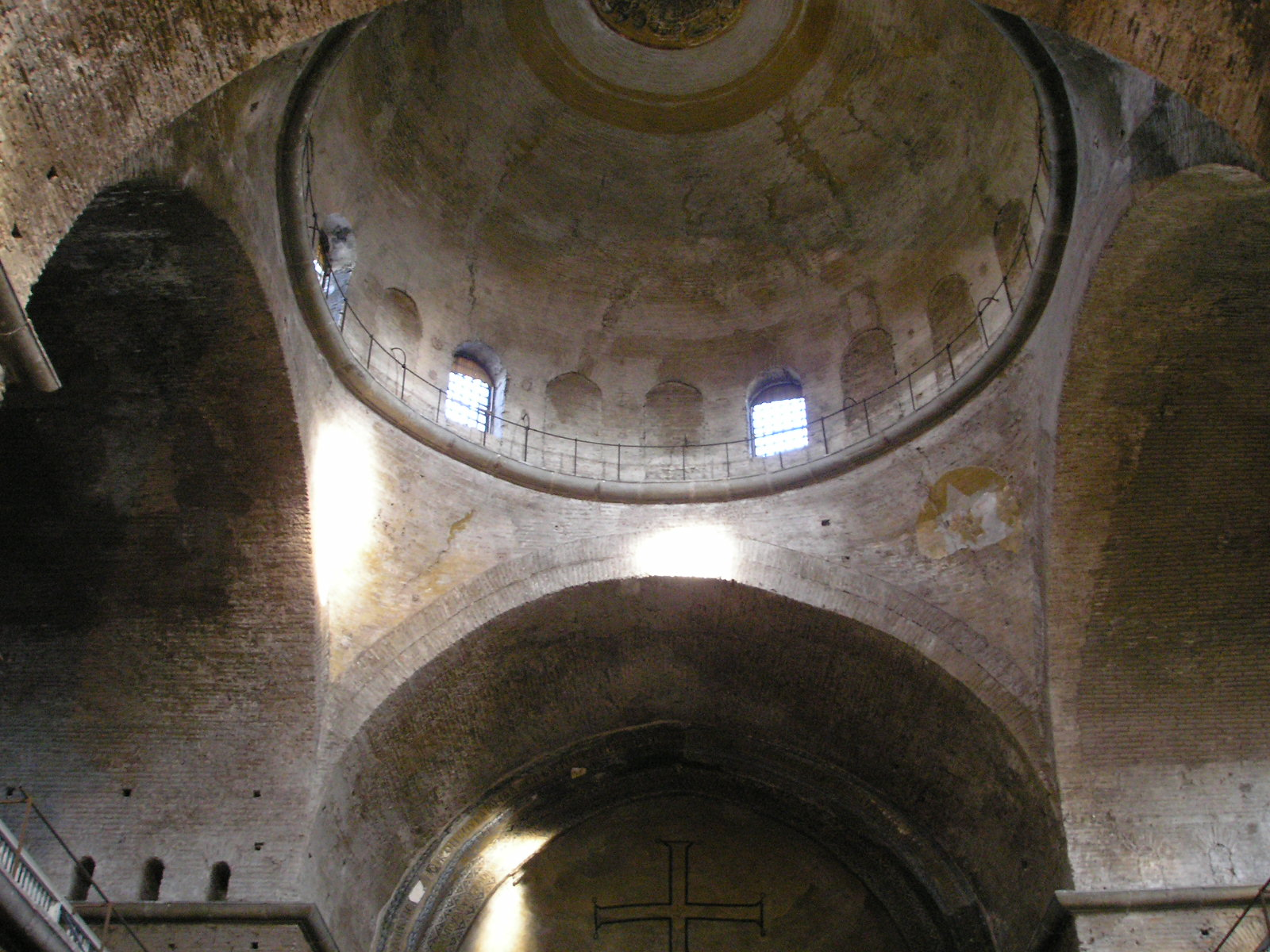 Image of Hagia Eirene church in Istanbul, next to Topkapi Palace.